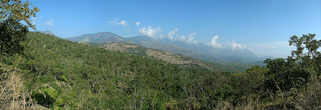 The High Wavies of Theni district